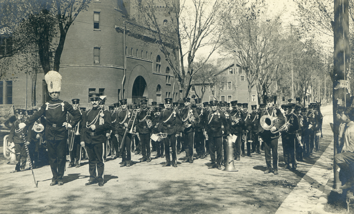 UW military band. Message on postcard: "Hello Justin: I hope you are better. This is our military band taken in front of the gym. I know the drum-major well. You ought to join it when you come out. Tom" n: 1910. Image ID# S06258. For more information about this image or UW-Madison campus history, .